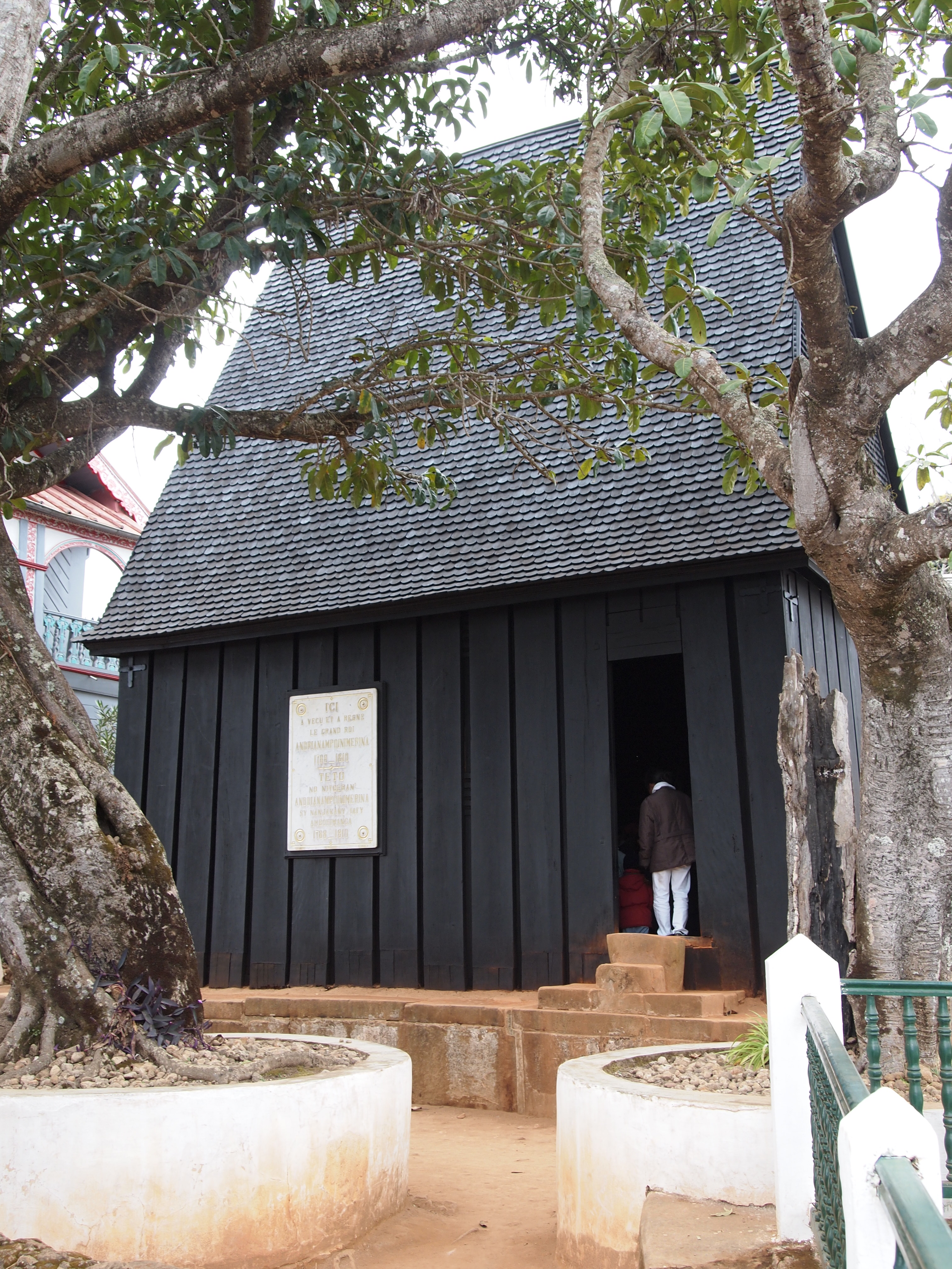 Madagascar Rova ambohimanga house of andrianampoinimerina